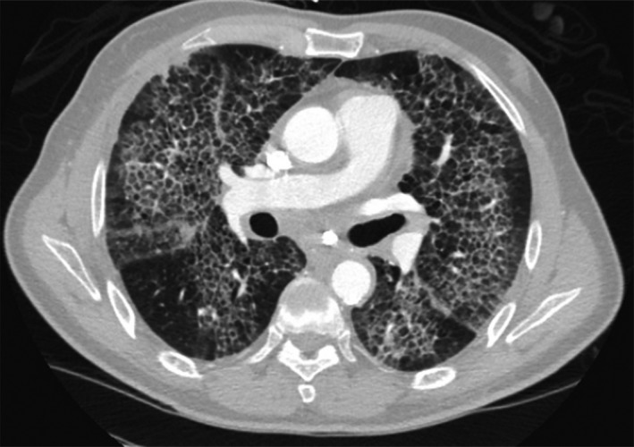 CT scan showing characteristic “crazy paving pattern” with polygonal honeycomb‐like interlobular septal thickening.